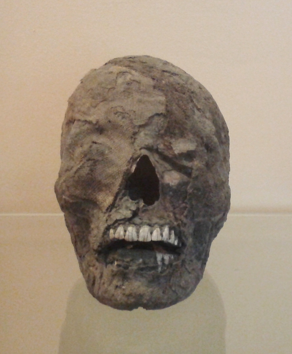 Mummified head covered with black resin and wrapped with linen strips